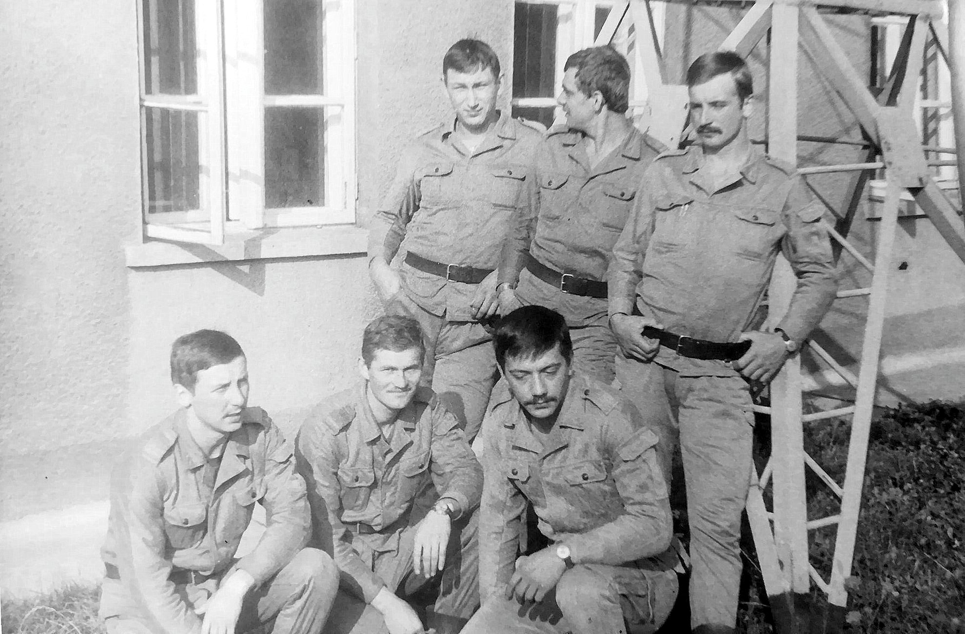 Border Protection Forces in Leszna Górna